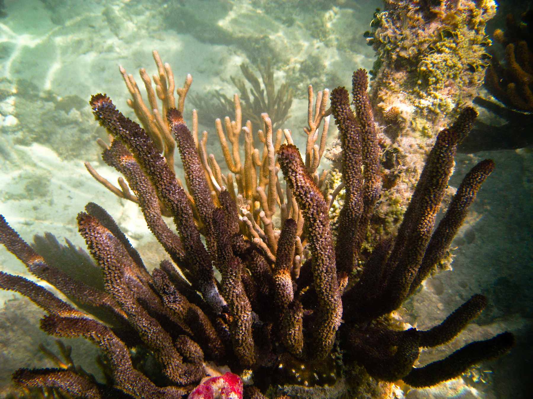 Submberged Resources of Dry Tortugas National Park National Park Service Photo taken by John Dengler